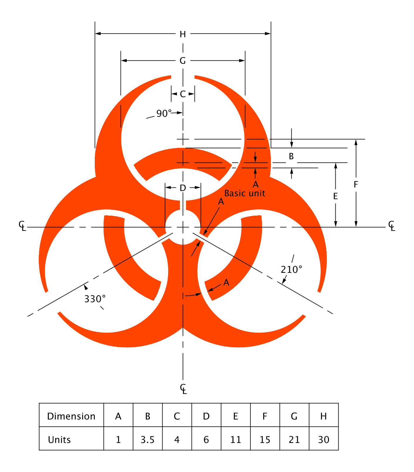 The Biohazard Symbol with dimensions as defined in